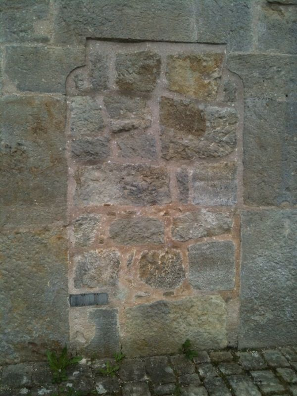 View from the North to the Pettendorf church, possible former portal to the destroyed abbey of the 13. century